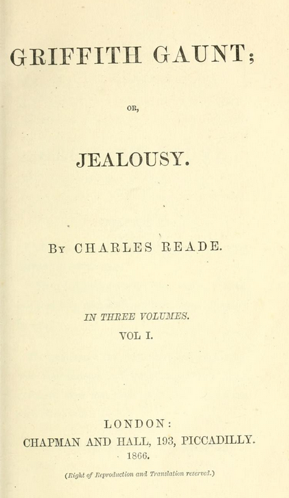 Title page to first edition of first volume of 1866 sensation novel Griffith Gaunt by Charles Reade, published by Chapman & Hall